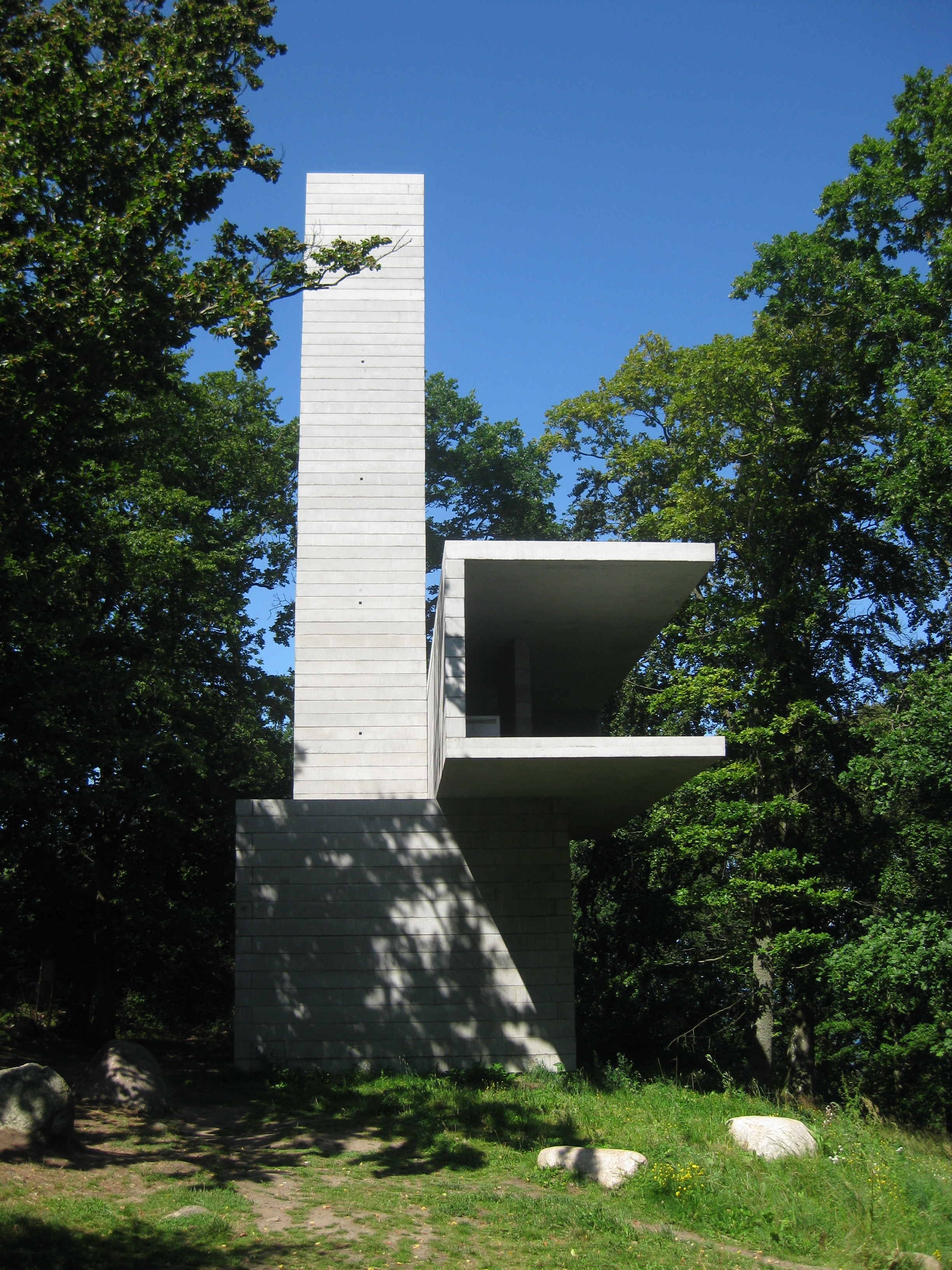 Kivik Art Centre, the sculpture "A sculpture for subjectiv experience of architecture"